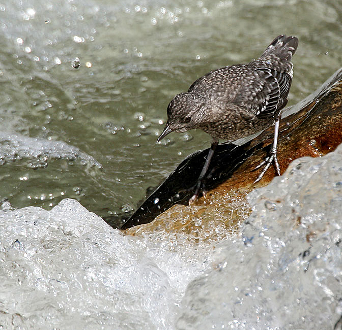 Brown Dipper Cinclus pallasii at Kasol (6500 ft.) in Kullu District of Himachal Pradesh, India.